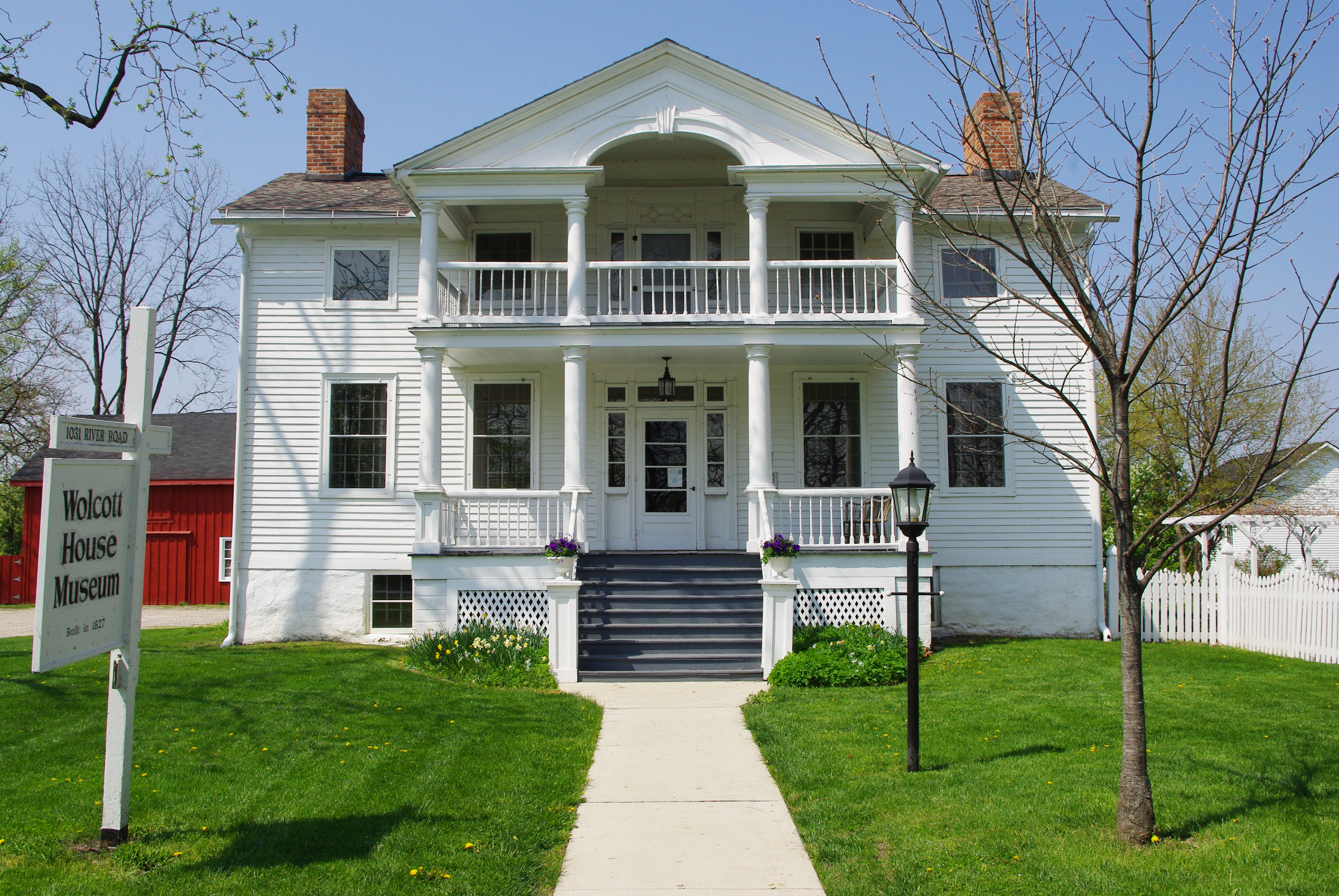 The Hull-Wolcott House at the Wolcott House Museum Complex in Maumee, OH, on 4/22/2010.